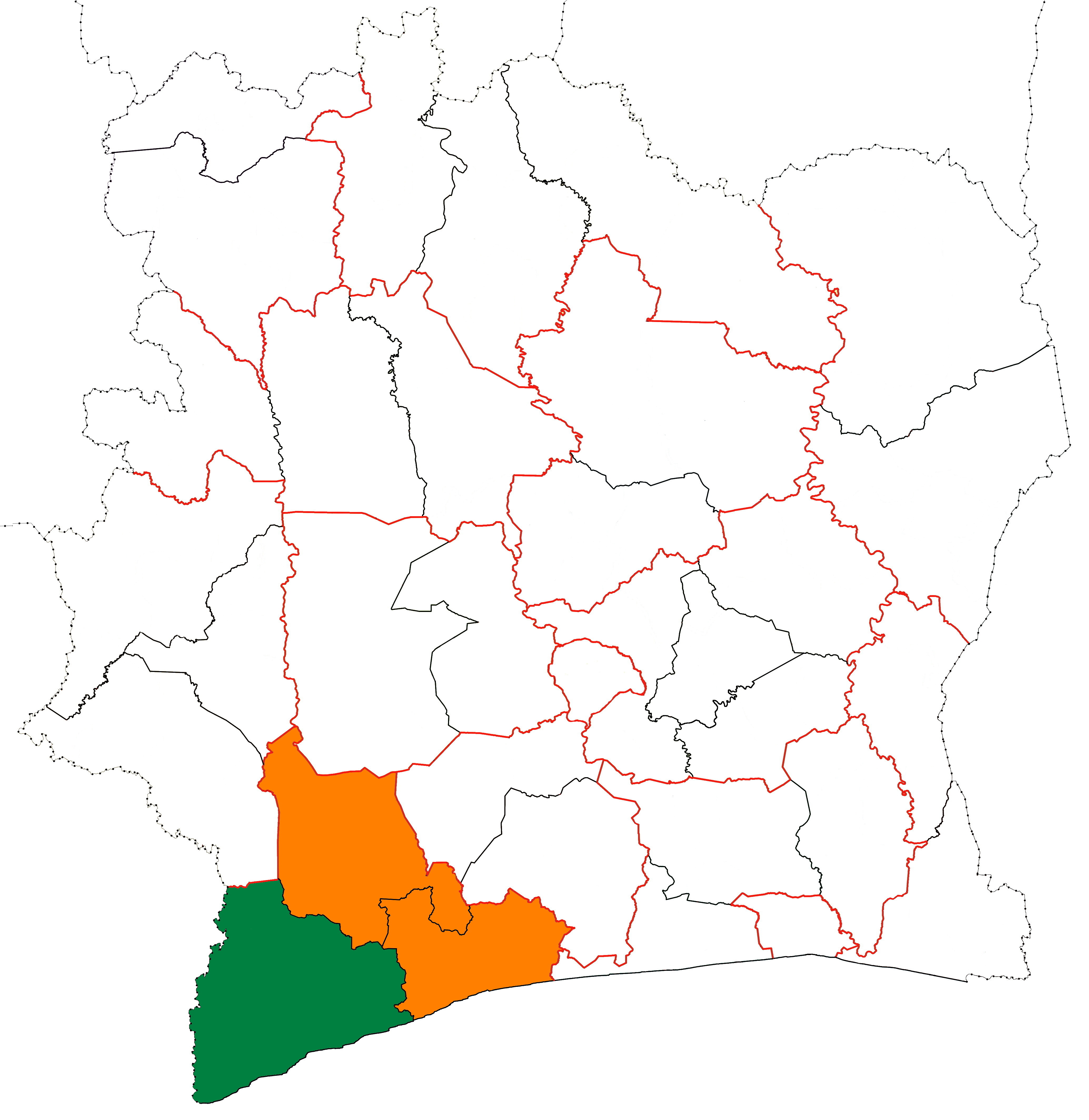 The location of San-Pédro region (green) in Côte d'Ivoire. The other shaded areas represent the other parts of Bas-Sassandra District.